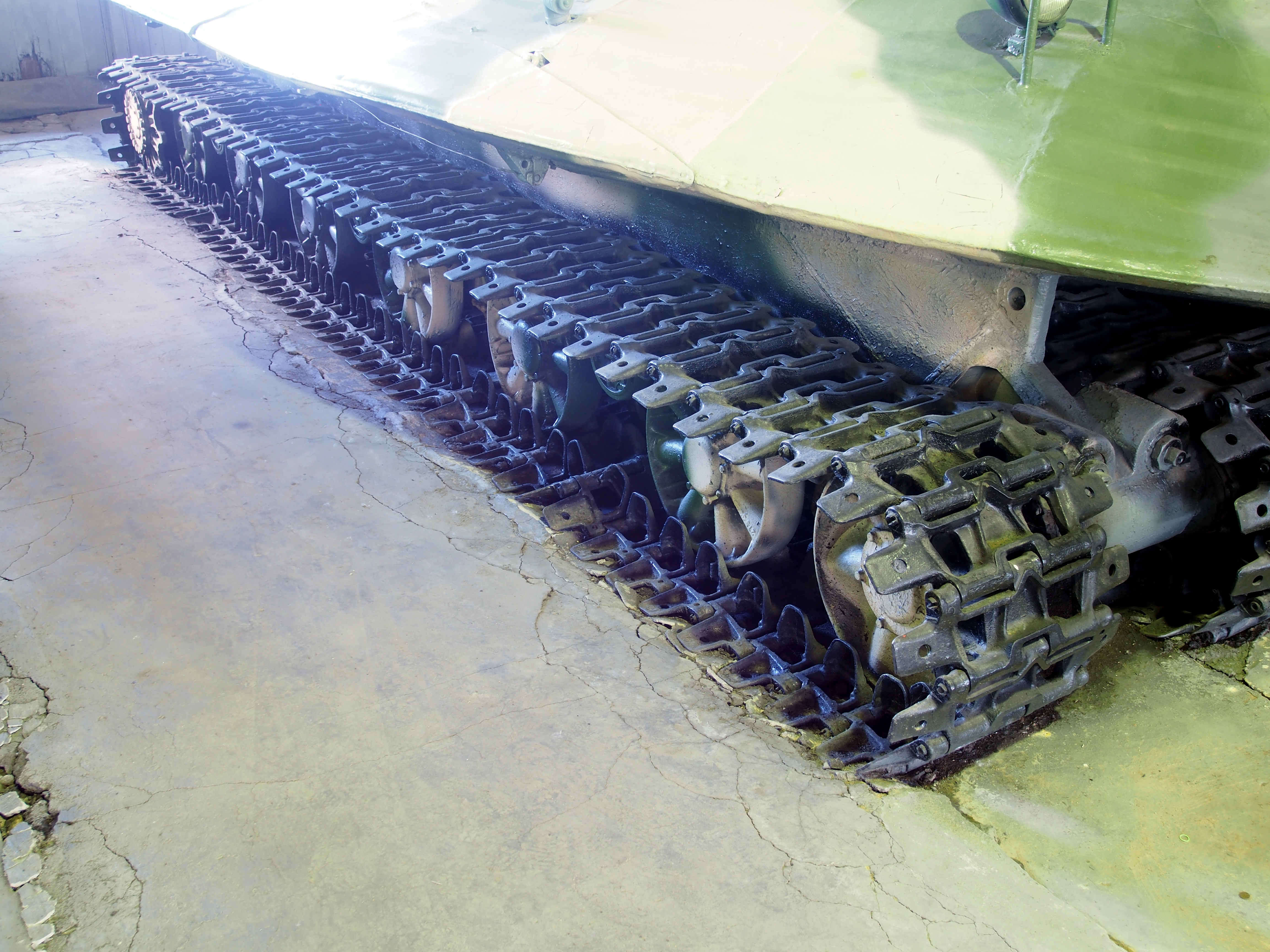 Object 279 at the Kubinka tank museum.